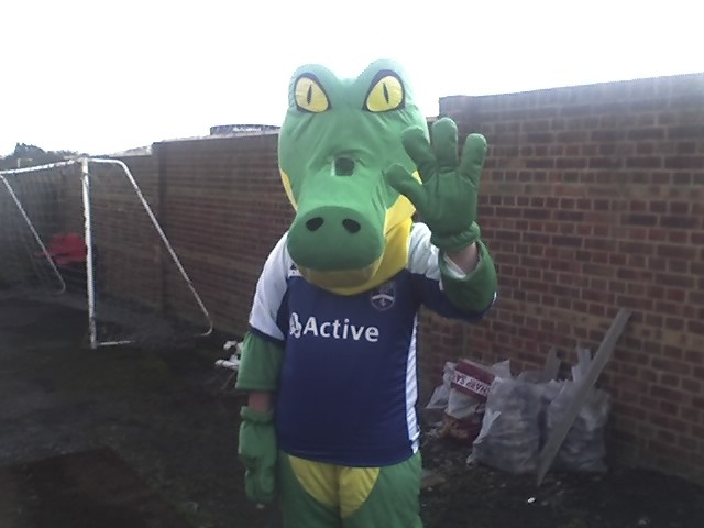 The Margate Football Club official mascot Margator.